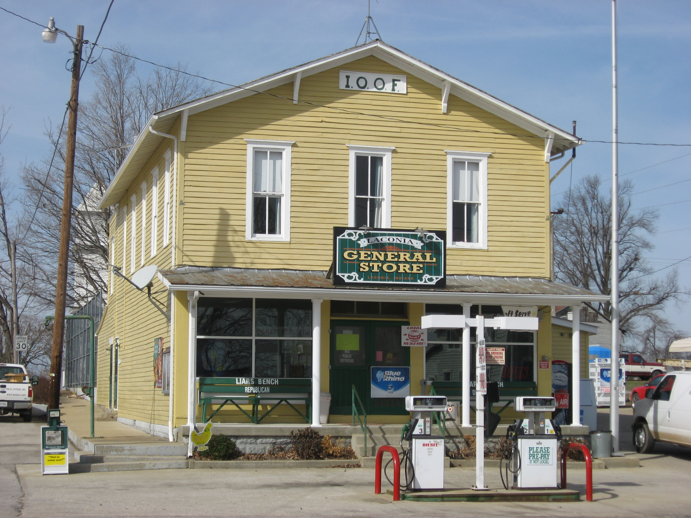 Front of the Laconia General Store, located at 11505 Main Street in Laconia, Indiana, United States.